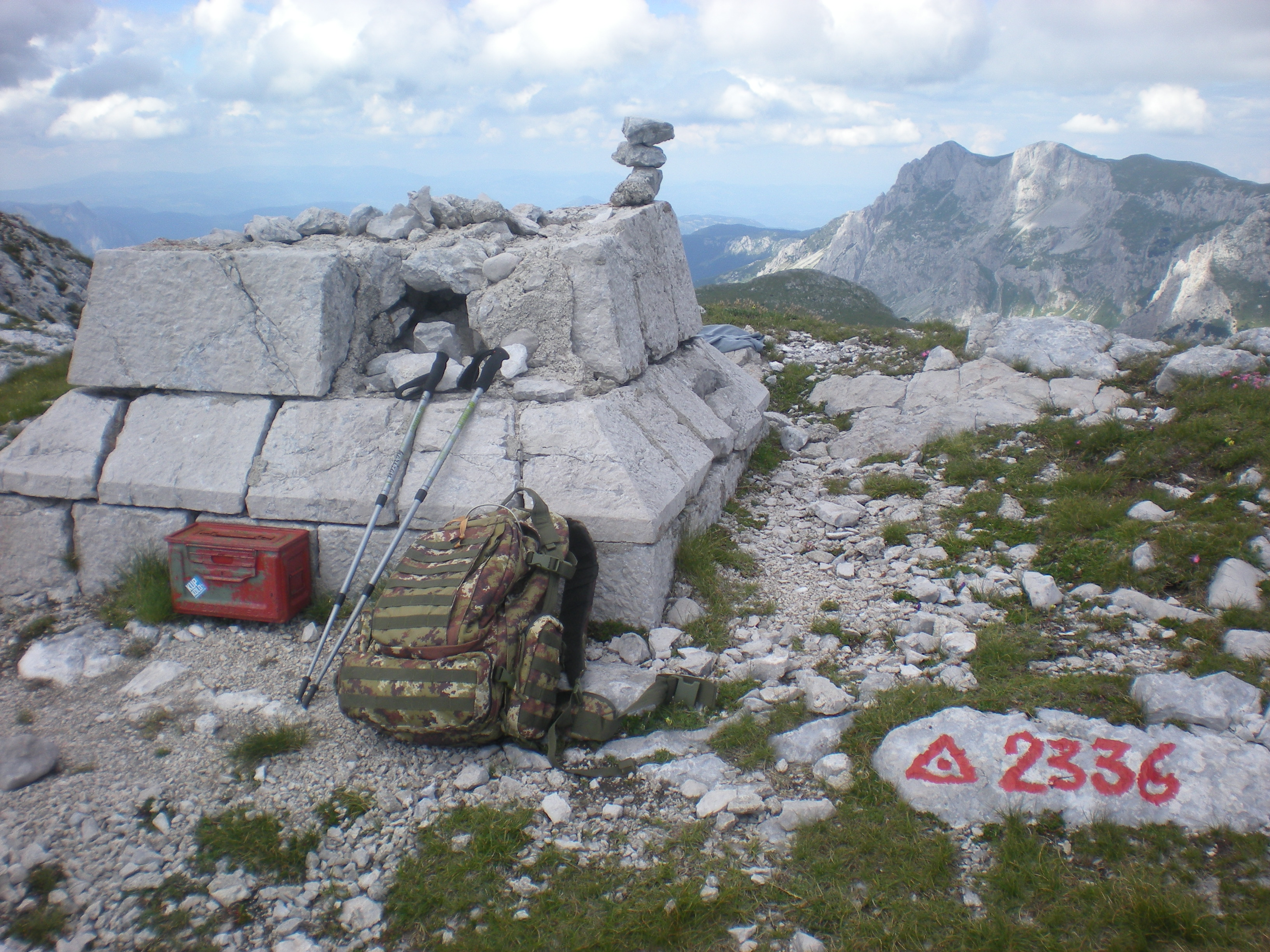 Volujak summit with the pedestal of the Austrian triangulation device and Maglic in the background.